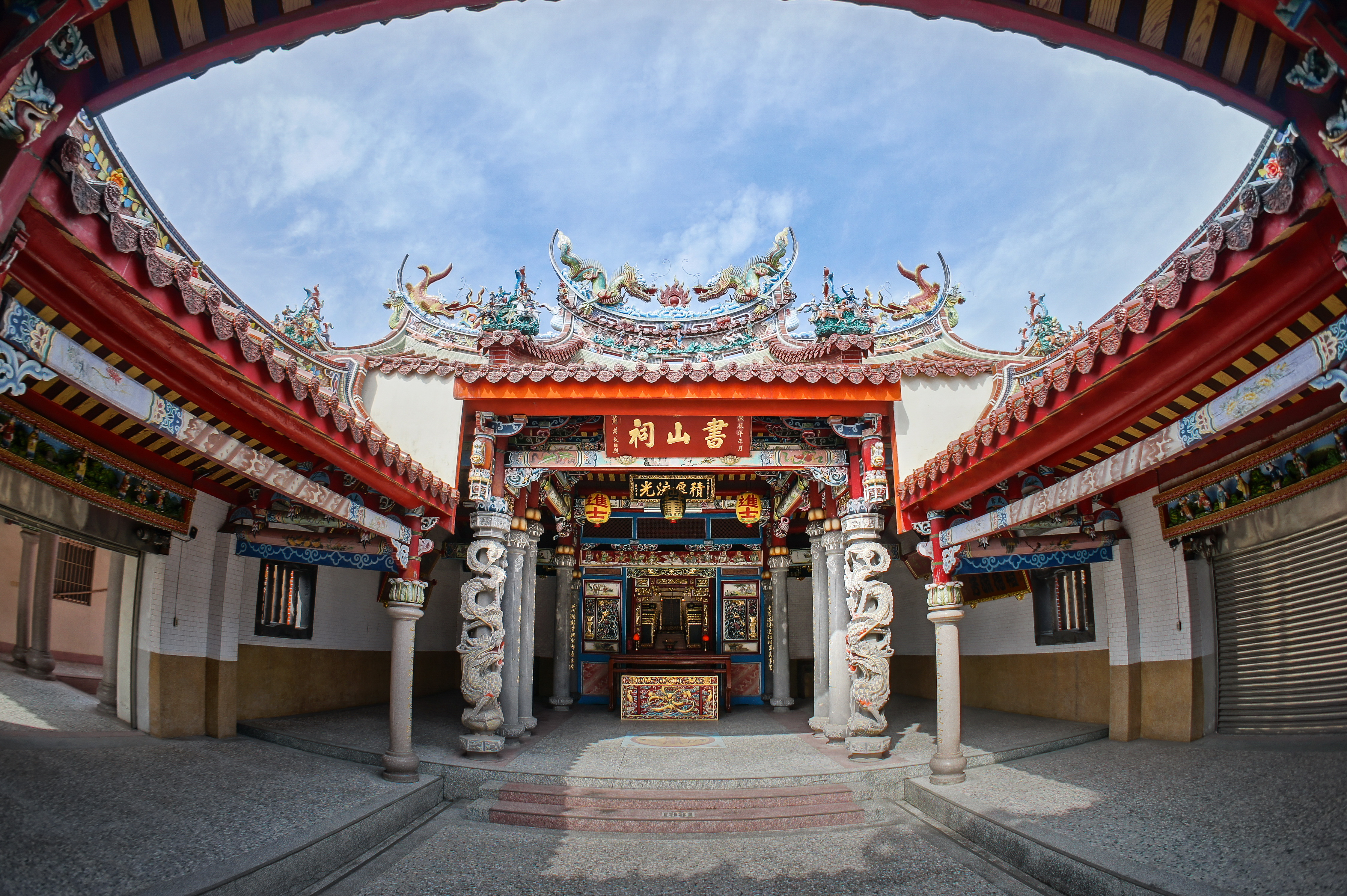 Courtyard and the Main Shrine of the Shu-Shan Ancestral Shrine, Tianzhong Township, Changhua County, Taiwan.